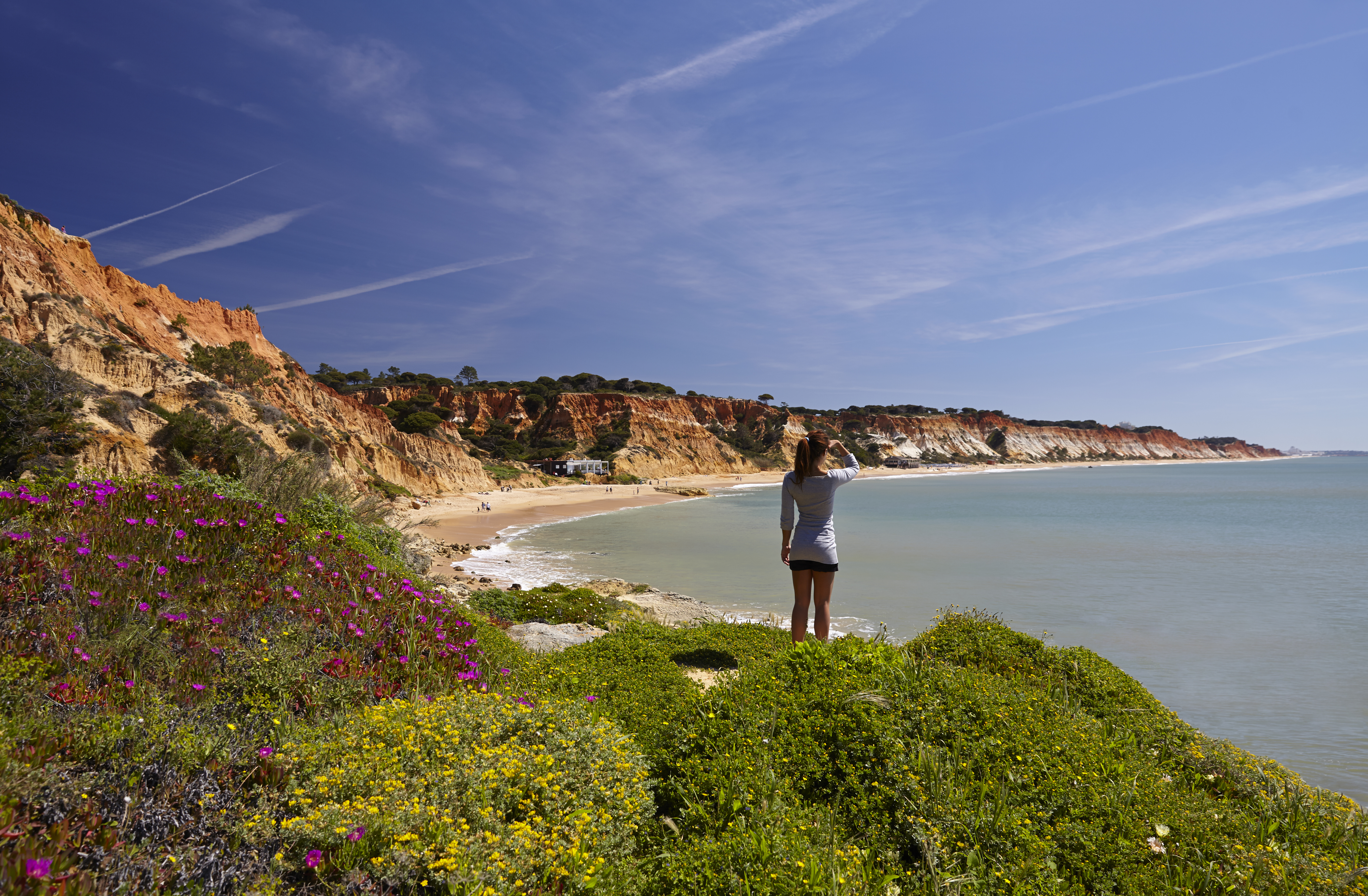 How to download a photo from FLICKR: 1. Click on the photo you wish to download; 2. On the end right-side of the page you will see 3 dots, this is an "Action" button. Click on the option "view all sizes"; 3. Select which size you wish to download. If you intend to print the photo to paper, then "Original" is typically the best option; 4. Finally, select the "Download" button. Learn more at